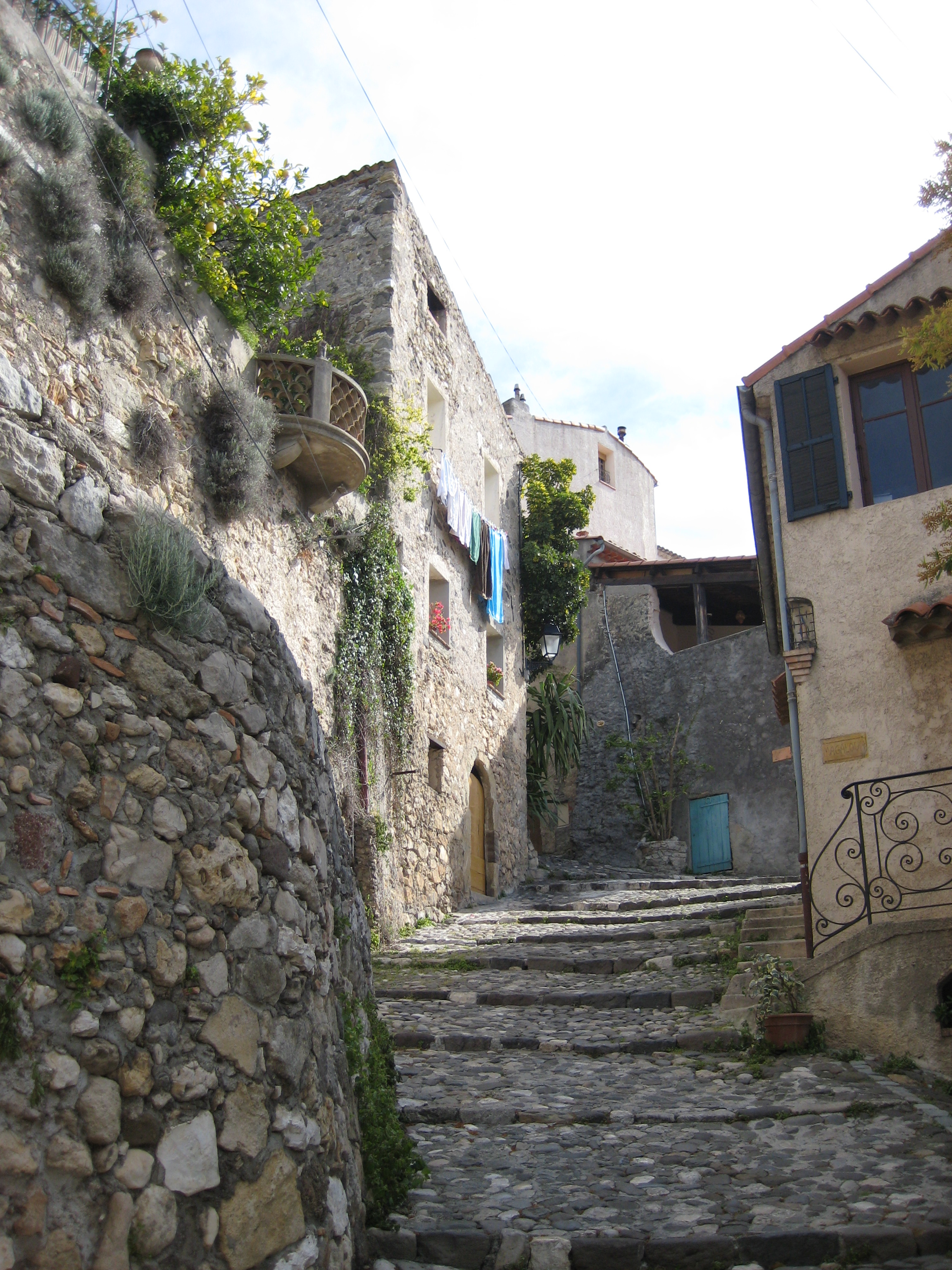 Biot Old Town